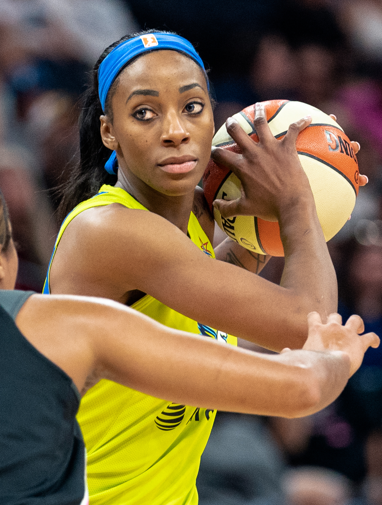 Minnesota Lynx vs Dallas Wings on August 22, 2019 at Target Center in Minneapolis, Minnesota